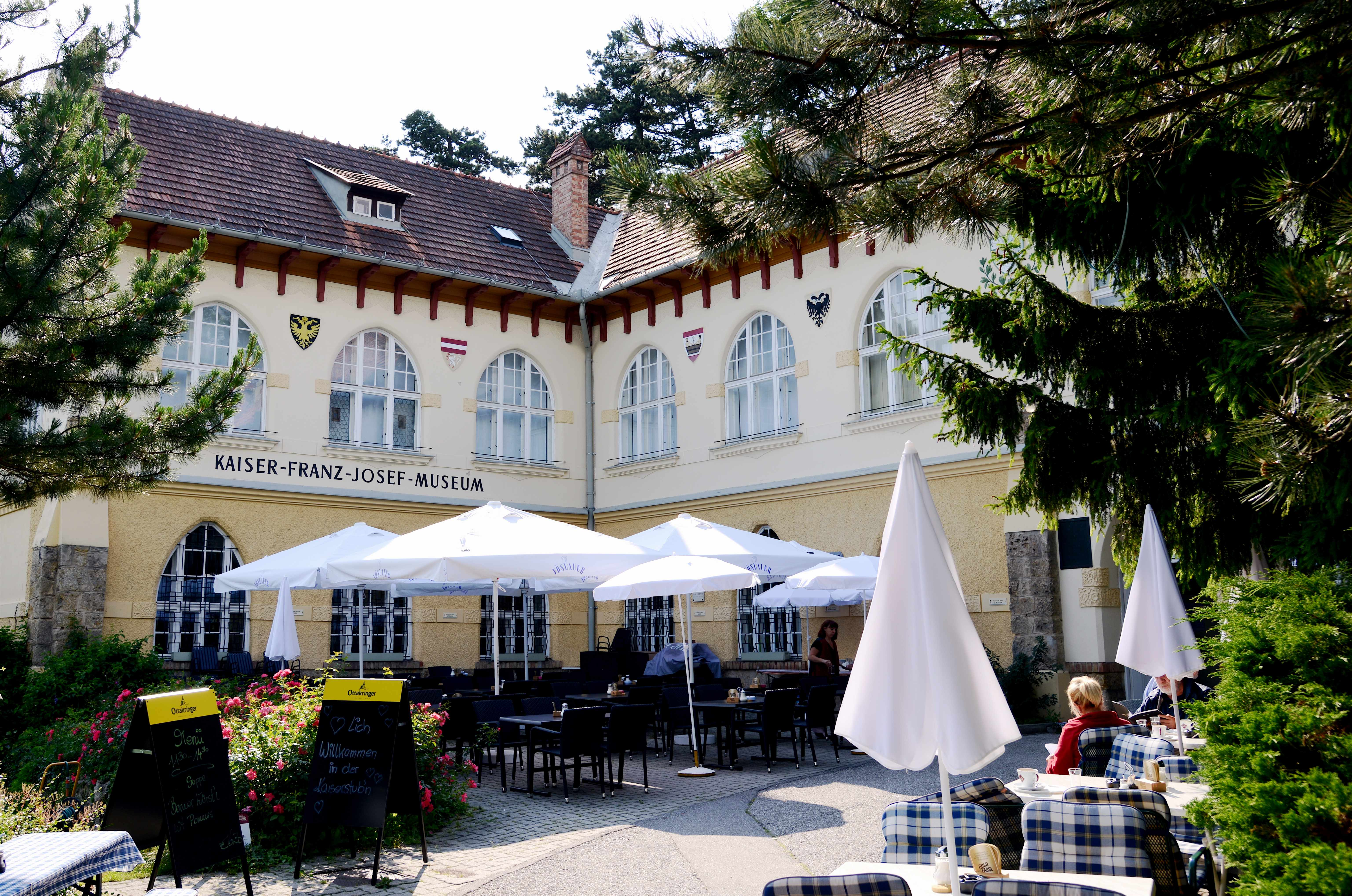 Kaiser-Franz-Josef-Museum, Baden bei Wien, 2013